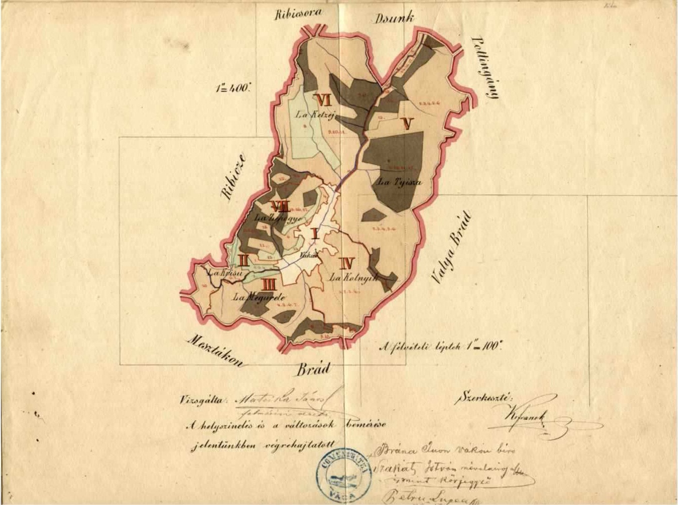 map of the boundaries of Vaca (now Crişan) village in the Aurifer Mountains